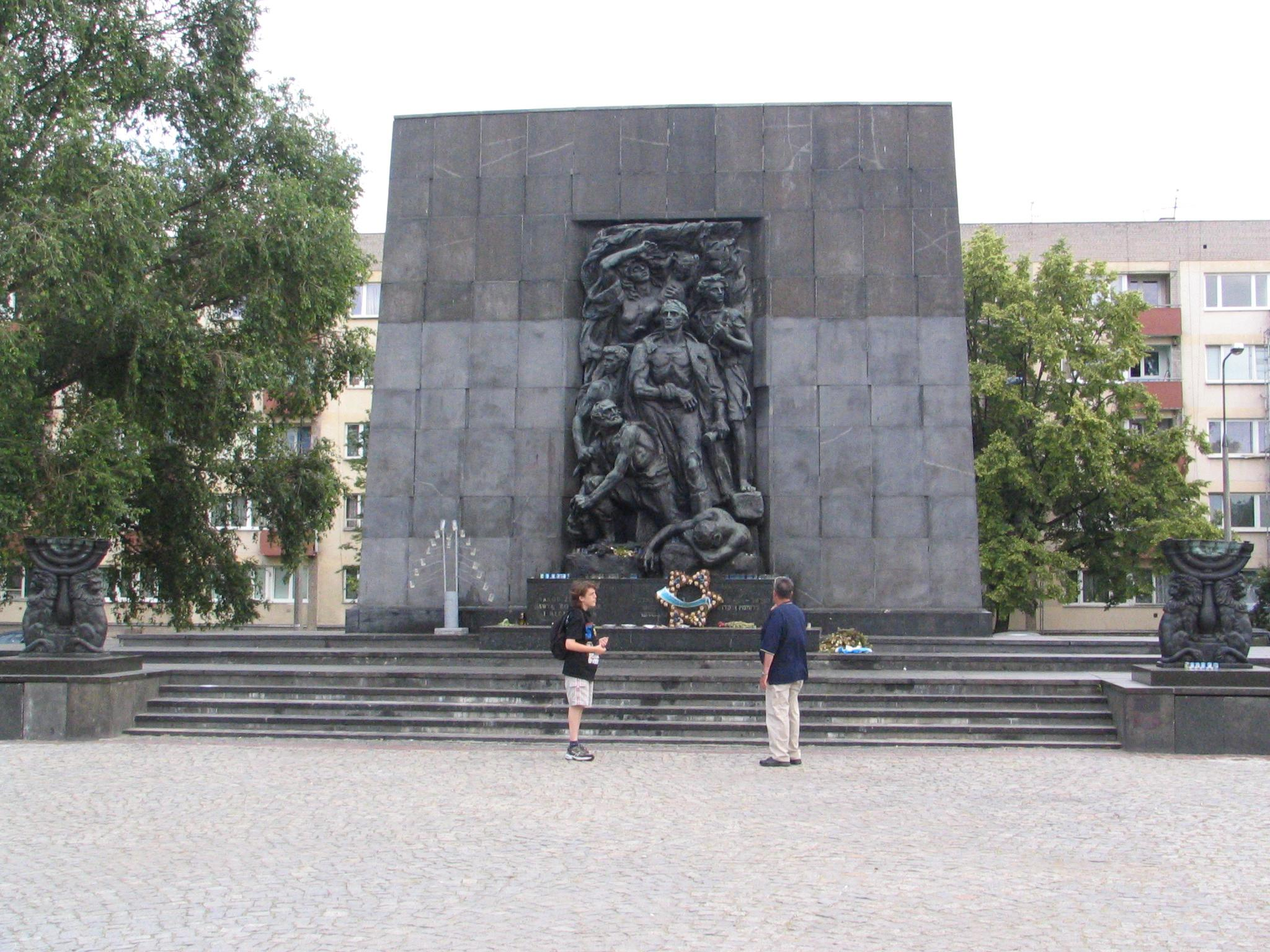 Warsaw, Plac Bohaterów Getta (Getho Heroes Square)